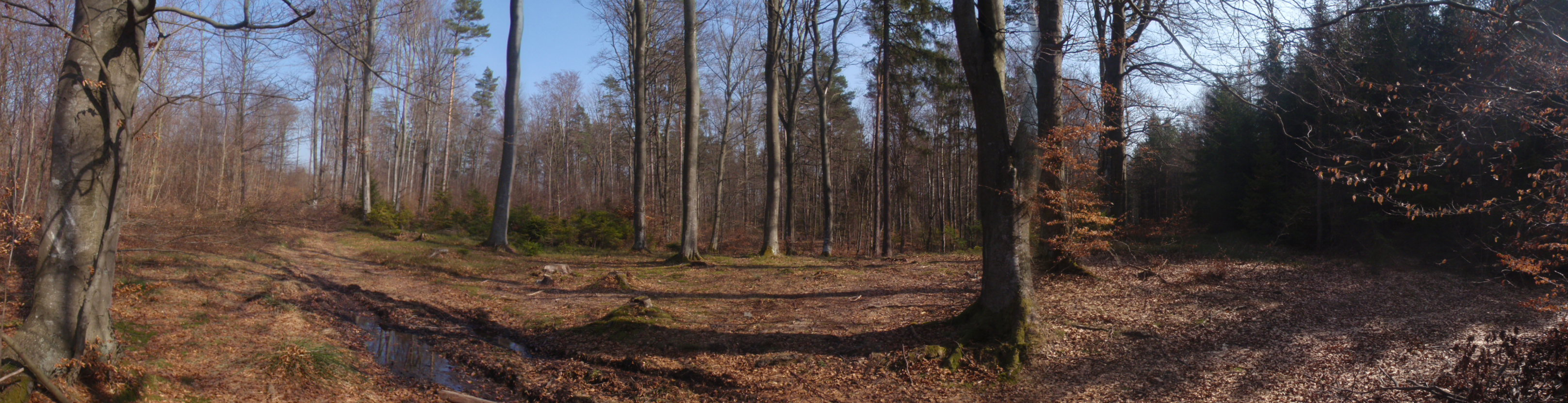 Tricity Landscape Park, Sopieszyno, POLAND